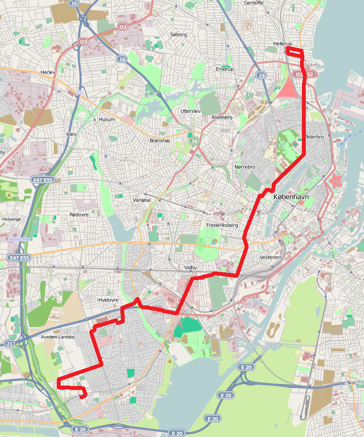 Map of Copenhagen bus line 1A between Avedøre Station and Hellerup Station as of 13 October 2019. This map may be incomplete, and may contain errors. Don't rely solely on it for navigation.